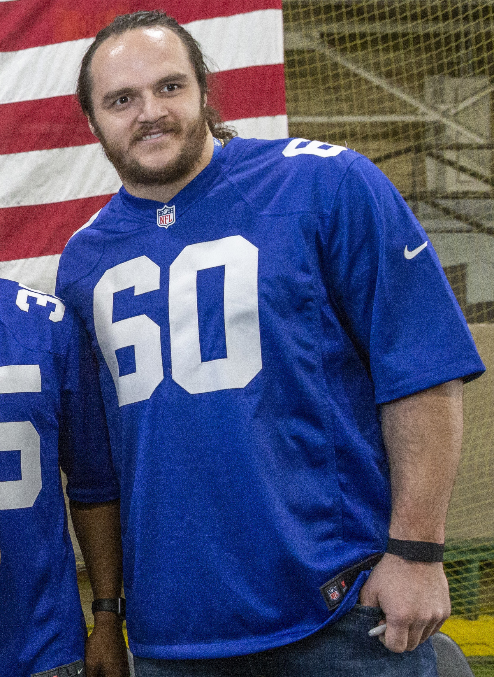 U.S. Army Capt. Anthony Moretti, Alpha Company, 104th Brigade Engineer Battalion, New Jersey Army National Guard, poses with his wife and members of the New York Giants football after the Battalion’s farewell ceremony at the National Guard Armory at West Orange, N.J., Feb. 8, 2019. Alpha Company is deploying in support of Operation Spartan Shield. (New Jersey National Guard photo by Mark C. Olsen)